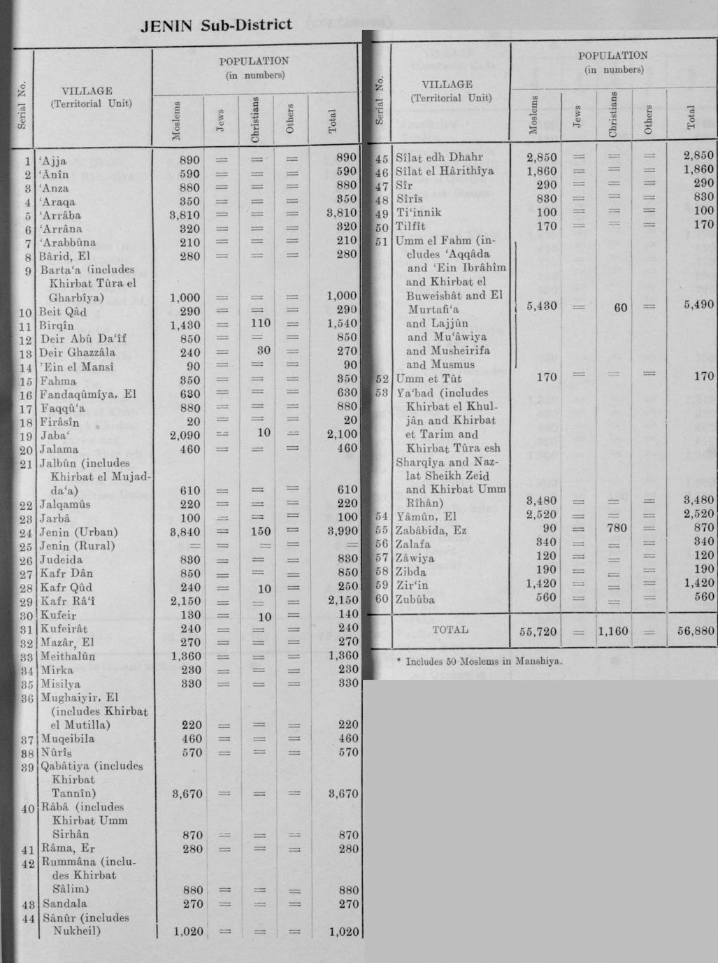 1945 Palestine Mandate Village Statistics